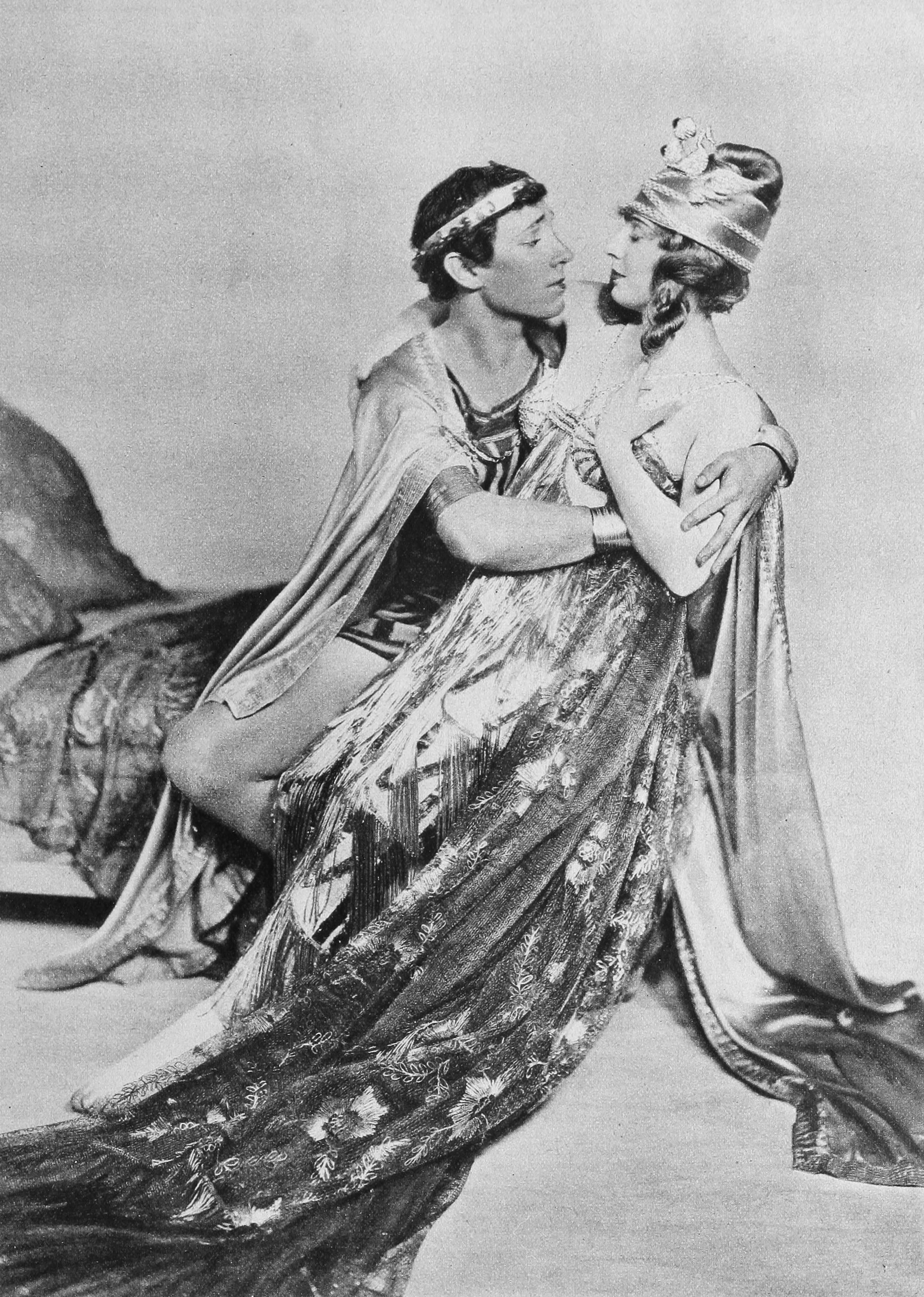 McKay Morris and Dorothy Dalton in the production Aphrodite, page 23 of the January 1920 Shadowland.